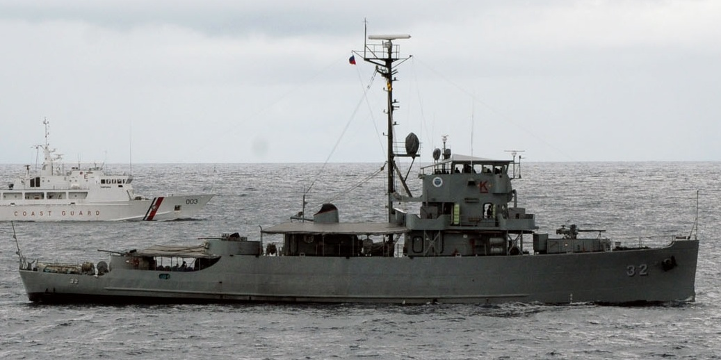 CELEBES SEA (July 8, 2012) BRP Iloilo (PS 32), PCG Pampanga (SARV 003), BRP Malvar (PS 19), BRP Abcede (PG 114) and USCGC Waesche (WMSL 751) join USS Vandegrift (FFG 48) for a photo exercise (PHOTOEX). The event marks the conclusion of the at-sea phase of exercise Cooperation Afloat Readiness and Training (CARAT) Philippines 2012. CARAT is a series of bilateral military exercises between the U.S. Navy and the armed forces of Bangladesh, Brunei, Cambodia, Indonesia, Malaysia, the Philippines, Singapore, and Thailand. Timor Leste joins the exercise for the first time in 2012. (U.S. Navy photo by Mass Communication Specialist 1st Class N. Ross Taylor/Released)